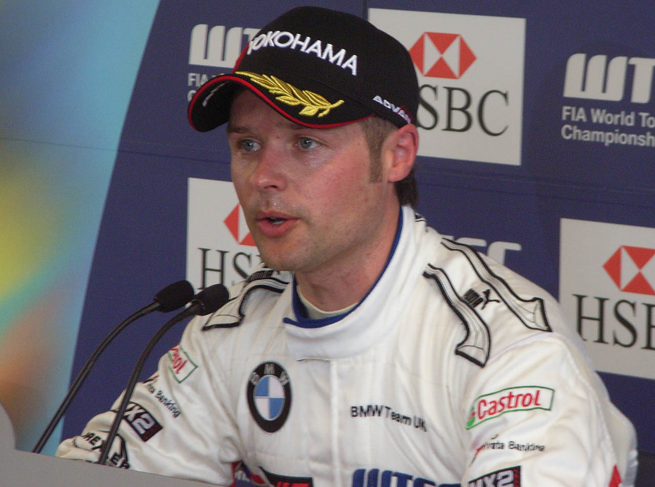 Andy Priaulx (BMW Team UK), World Touring Car Championship double-champion (2005 - 2006), at the Press Conference after the Race 1 in Curitiba.